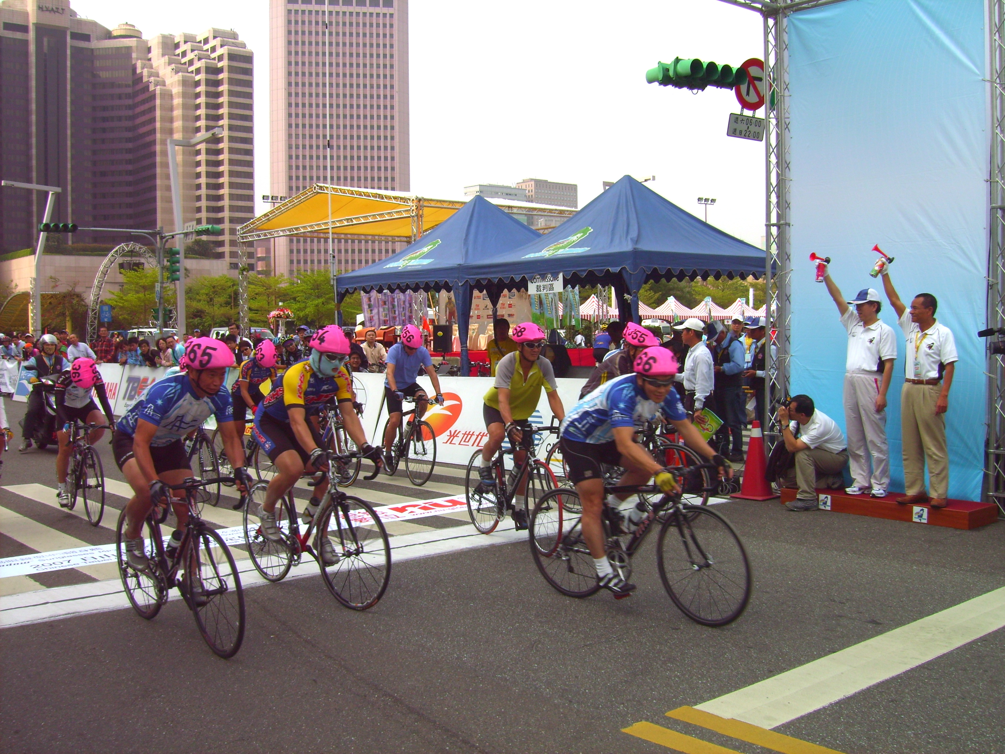 The 2nd Taipei Citizen Elimination Road Race: Men's 45+ age group and women group started at the same time.